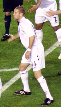 Matthew Upson playing for England against Spain at the Ramón Sánchez Pizjuán Stadium, Seville on 11 February 2009